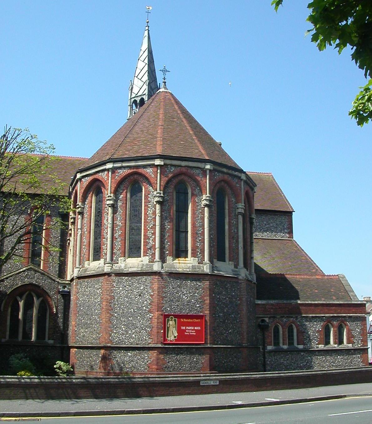 St Barnabas' parish church, Sackville Road, Hove, England, seen from the east